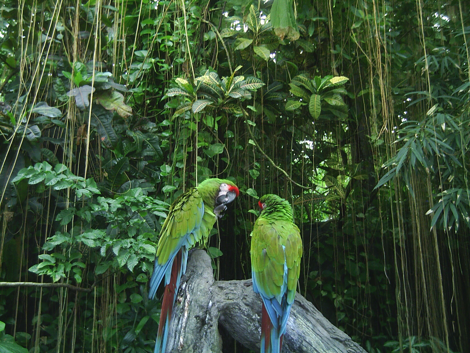 Two Military Macaws Ara militaris